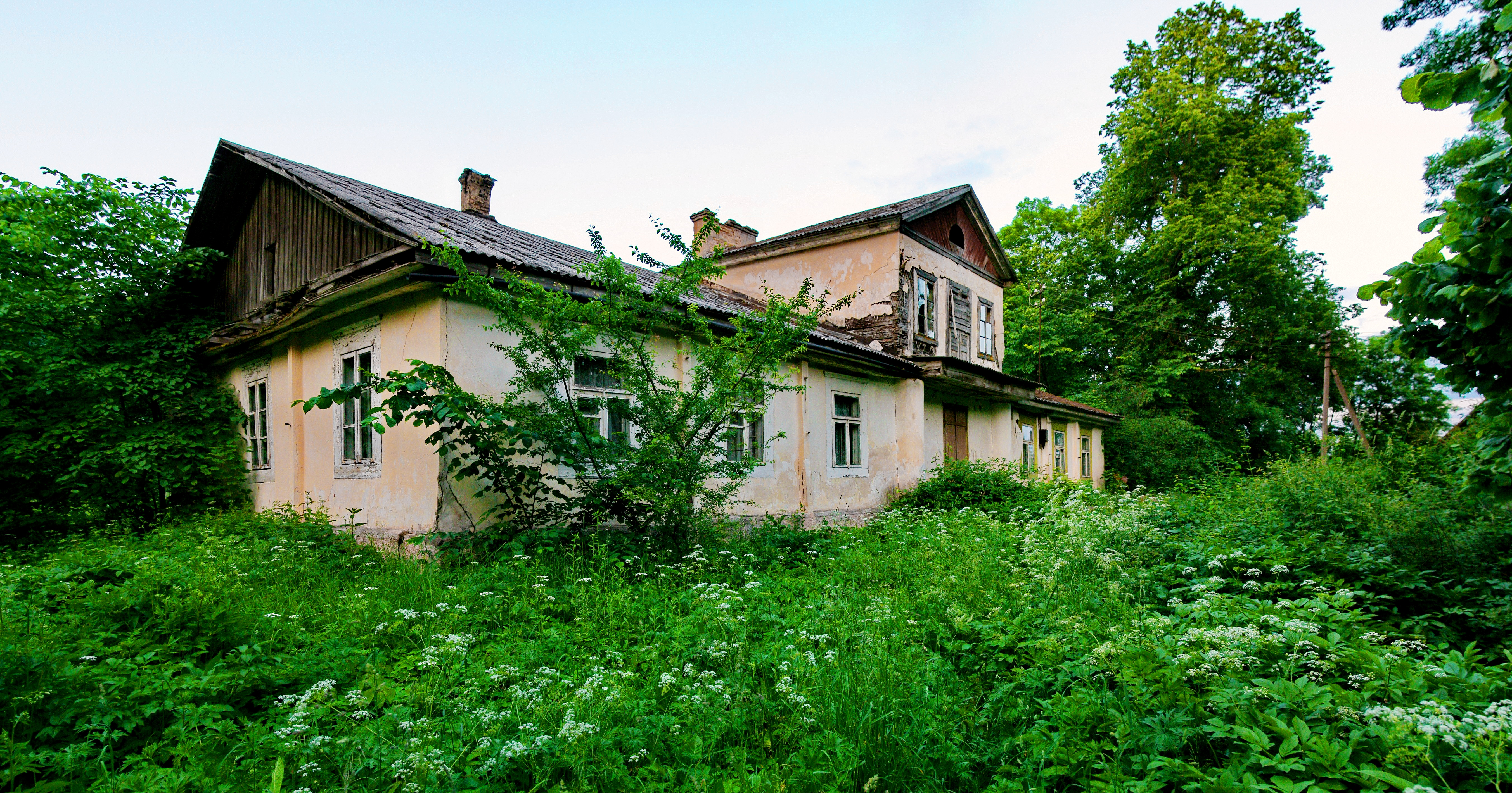 Manor of Čekoniškės, Lithuania